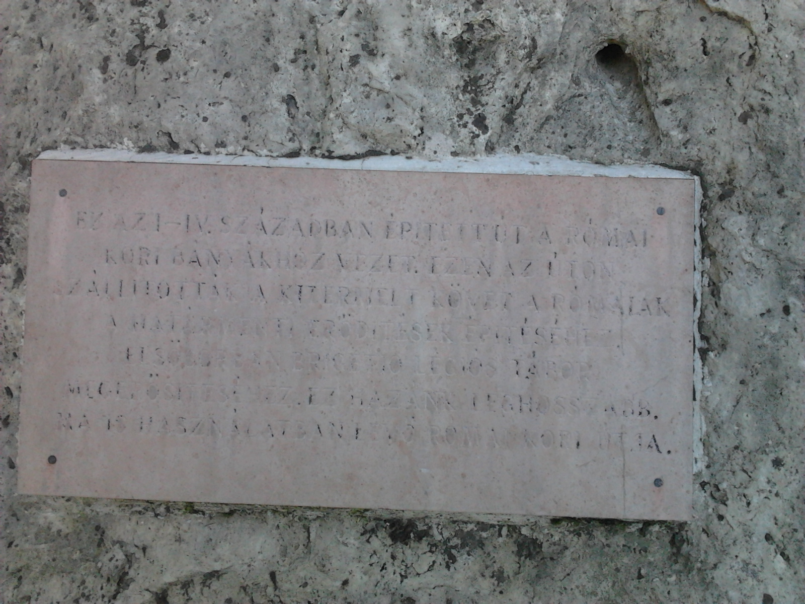 A memorial plaque near a Roman road at Dunaalmás